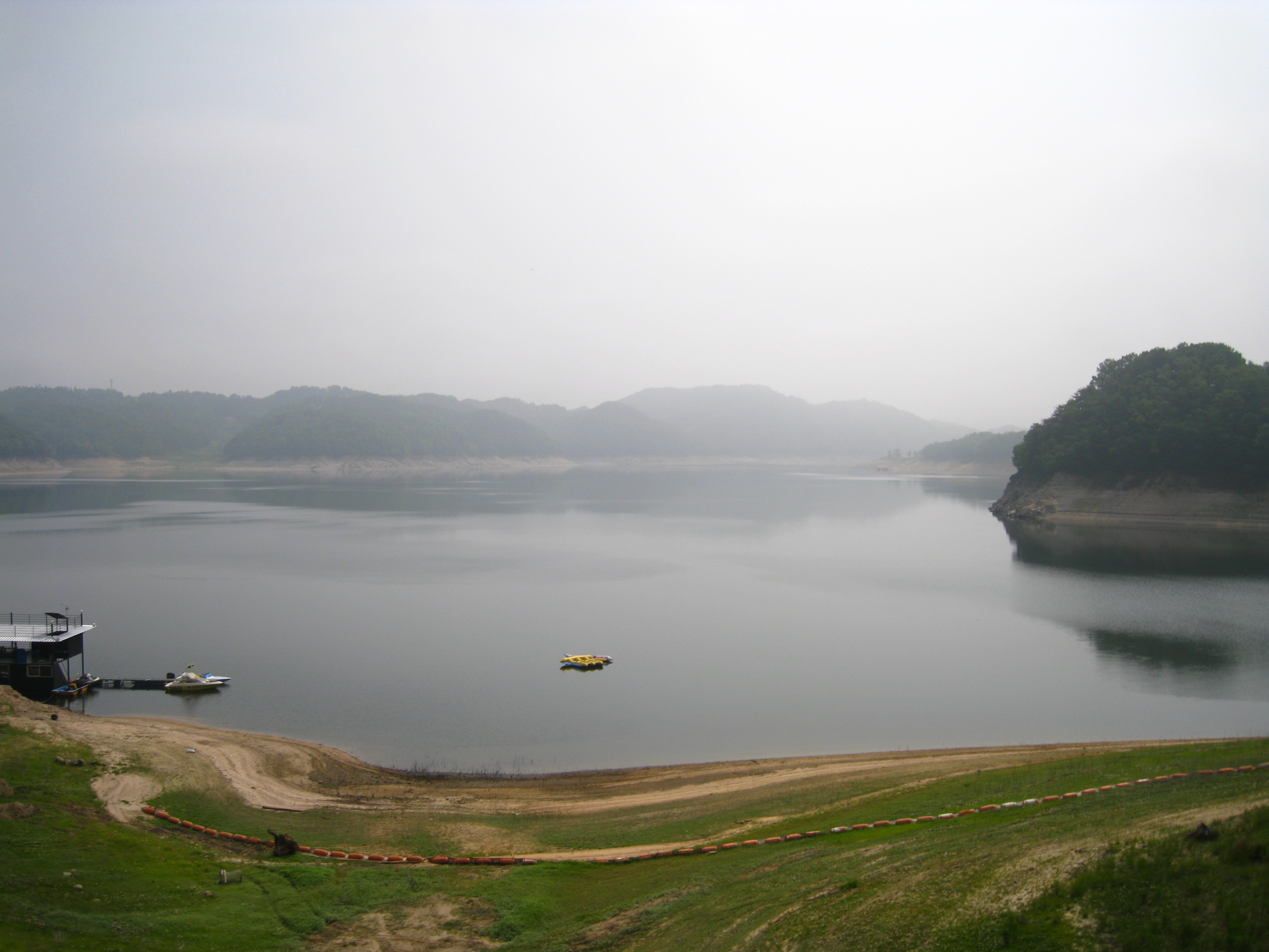 Nakdong River running through the Angdong region, South Korea